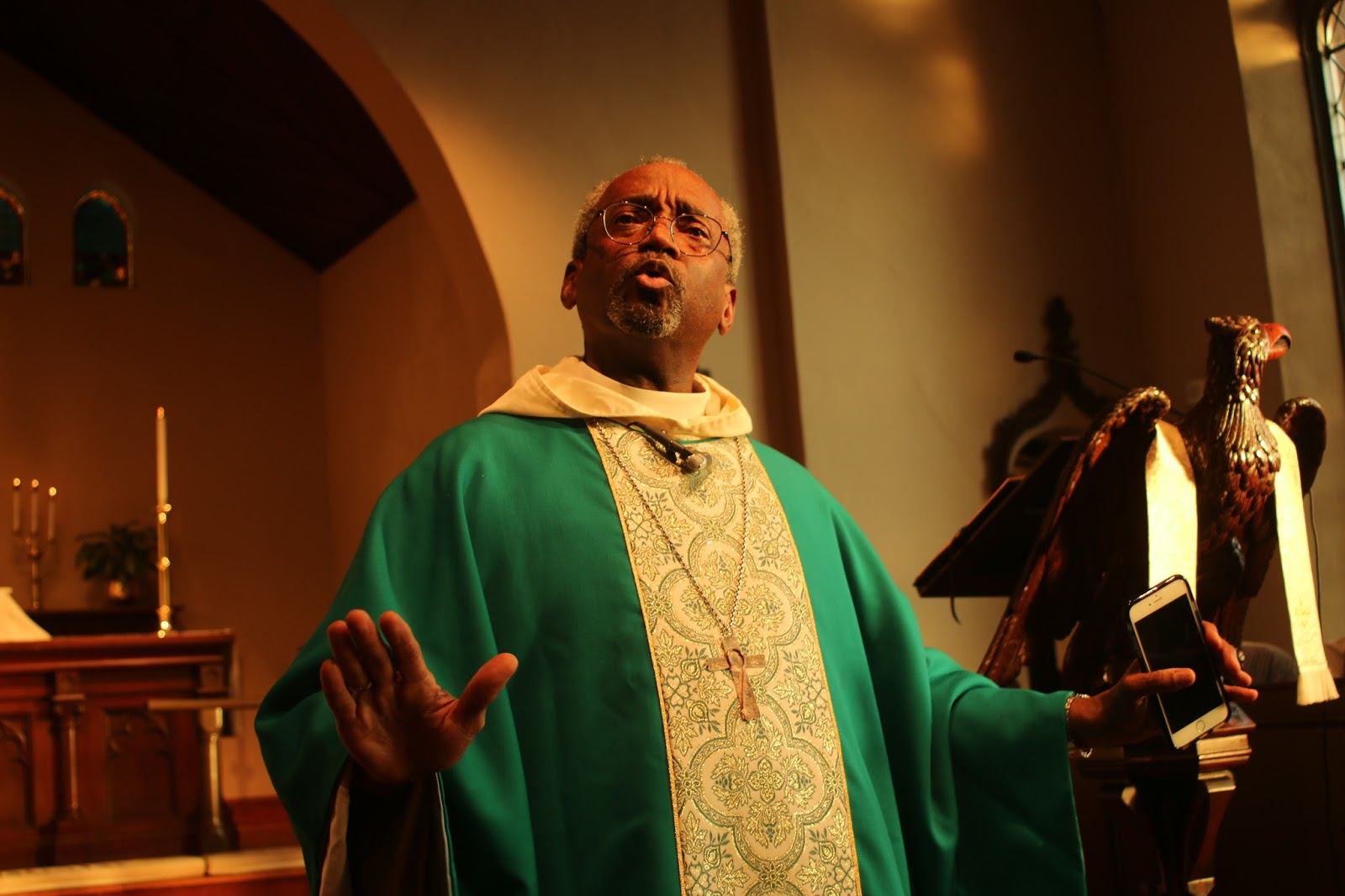 Michael Bruce Curry, Bishop of the Episcopal Diocese of North Carolina